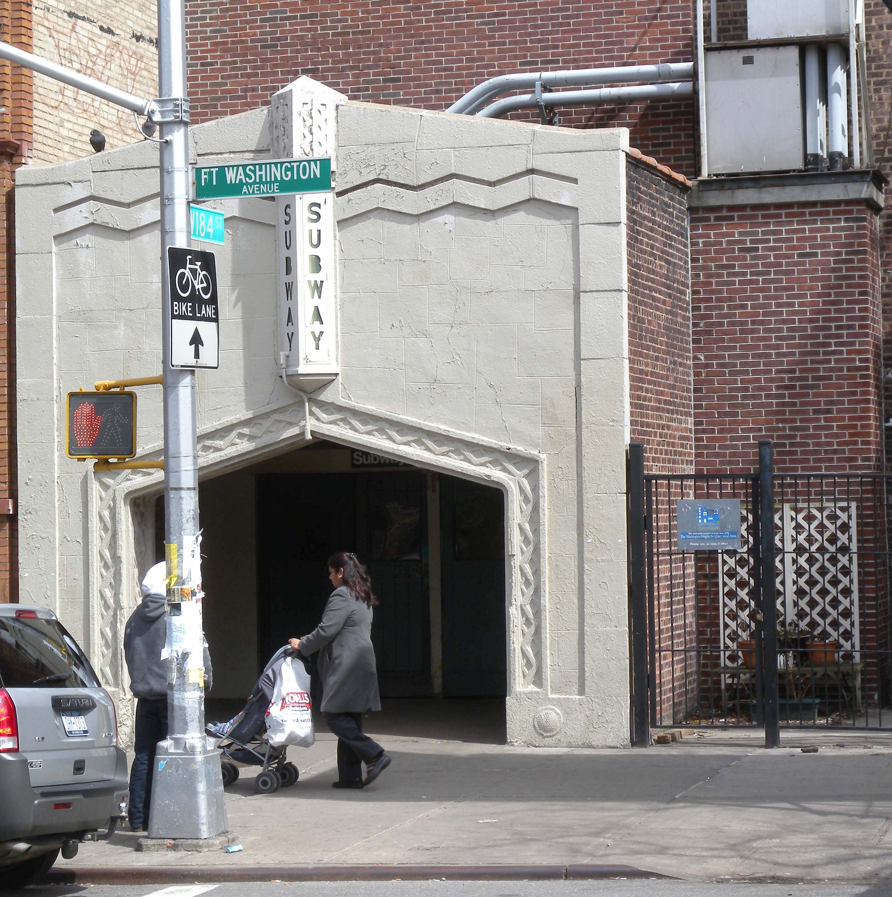 Looking east across Ft Washington Avenue at 184th Street entrance of en:181st Street (IND Eighth Avenue Line) station on a sunny midday.